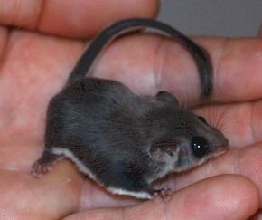 Acrobates pygmaeus Feathertail glider rescued from a bucket